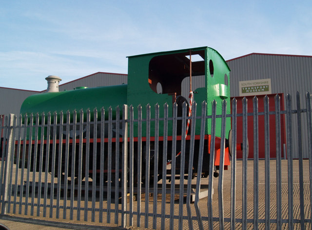 South Yorkshire Transport Museum Moved here recently from Sheffield (was bus museum) to Waddington Way Aldwarke.